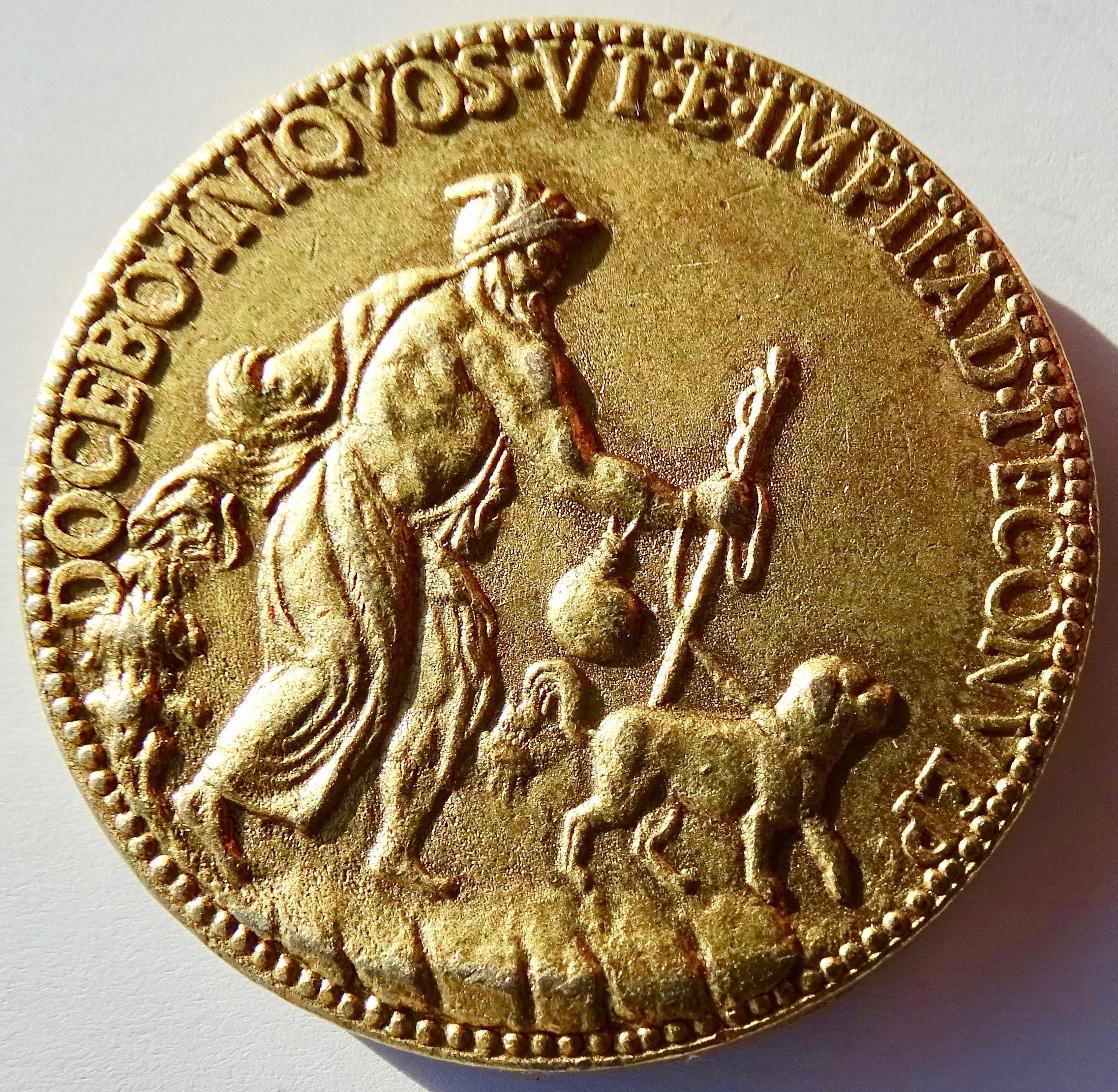 Michelangelo 88th Birthday Medal by Leone Leoni gilt Æ- 19th Century Electrotype. Bronze medallion, d. = 35 mm. 21.01 g. Michelangelo di Lodovico Buonarroti Simoni, 1475 Caprese near Arezzo, Republic of Florence (present-day Tuscany, Italy) – 1564 Rome, Papal States (present-day Italy) Portrait r., around: "· MICHAELANGELVS · BONARROTVS · FLO · R · AES · ANN 88 ·"/ Michelangelo walking r. being led right by guide dog. Forrer III, p. 400 Medallist: Leone Leoni, 1509 Menaggio near Lake Como, Italy - 1590 Milan Condition: Nice EXTREMELY FINE+.